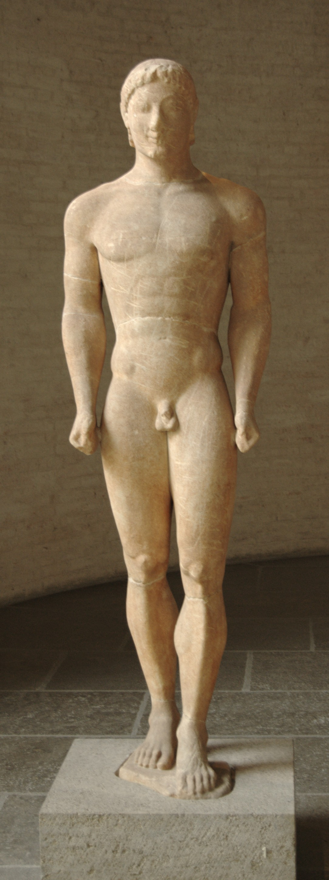 So called “Munich kouros”, great kouros from Attica, Parian marble, ca. 540–530 BC.